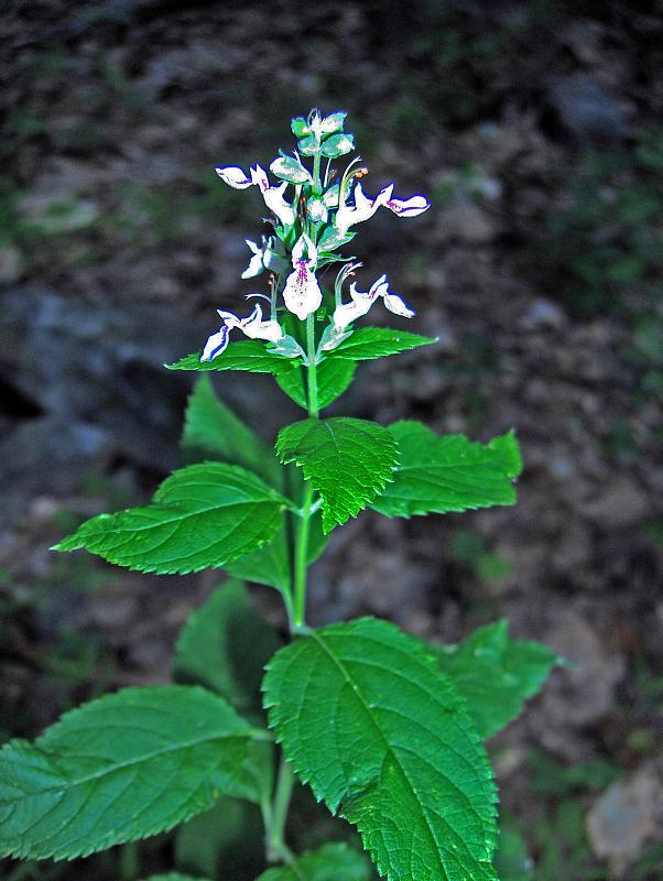 American Germander